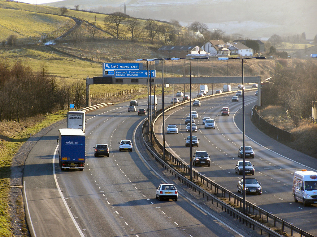 Westbound M62 The westbound M62 towards Manchester, seen from the bridge at Tunshill.